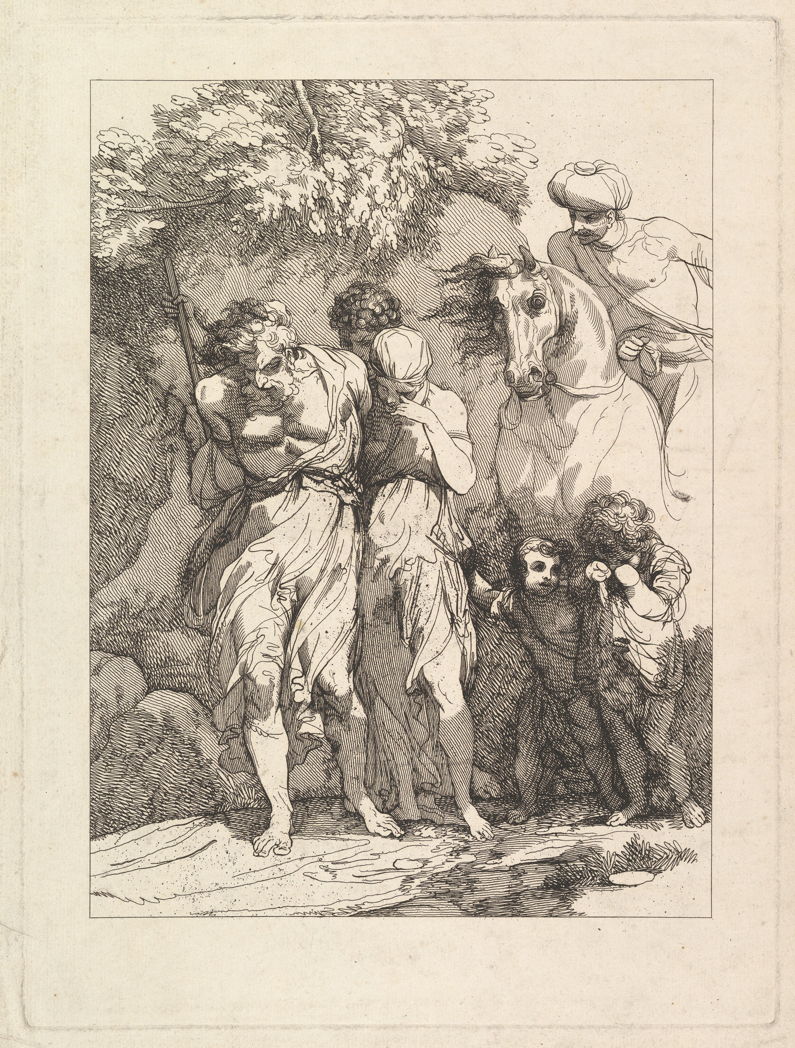 Print; Prints